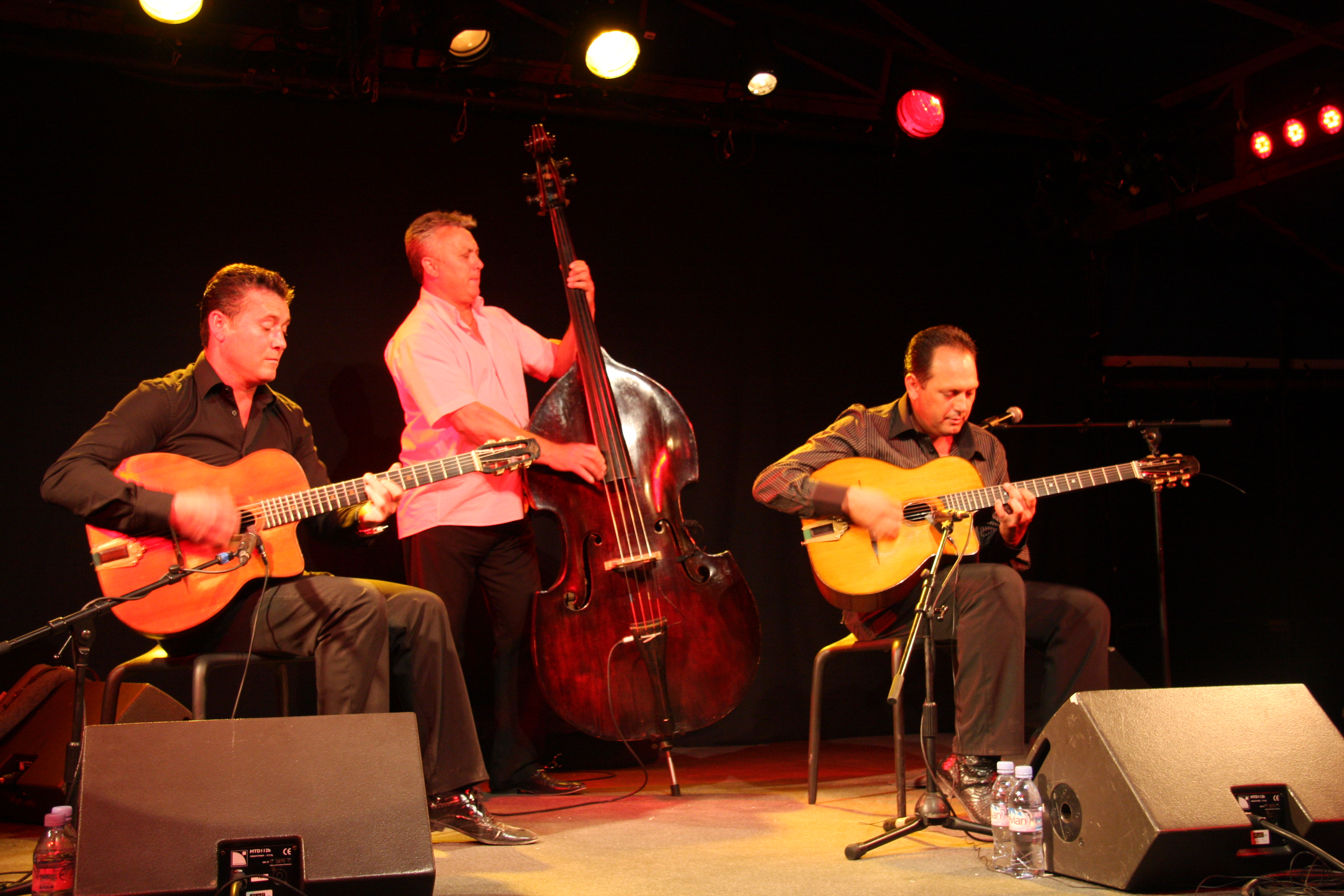 the Rosemberg Trio in the twentieth music festival Fort en Jazz in 2009 in Francheville, France. Stochelo Rosenberg (soloist) Nous'che Rosenberg (rhythm guitar) Nonnie Rosenberg (double bass) The making of this document was supported by Wikimédia France. (Submit your project!)